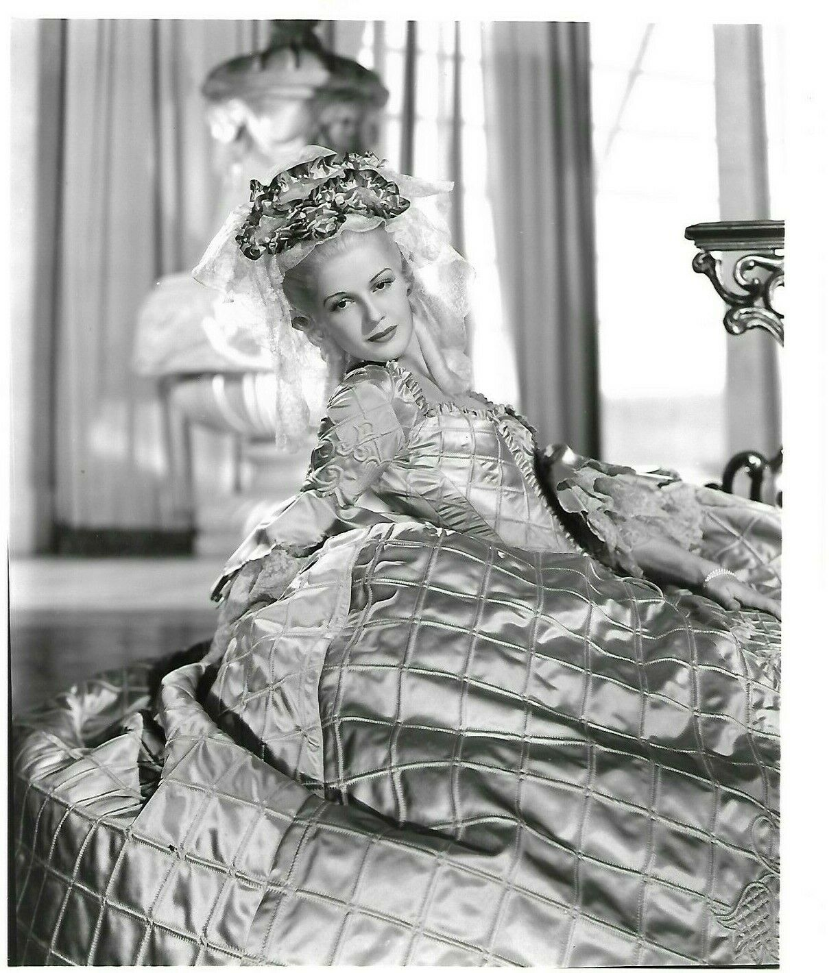 Anita Louise in Marie Antoinette (film), 1938